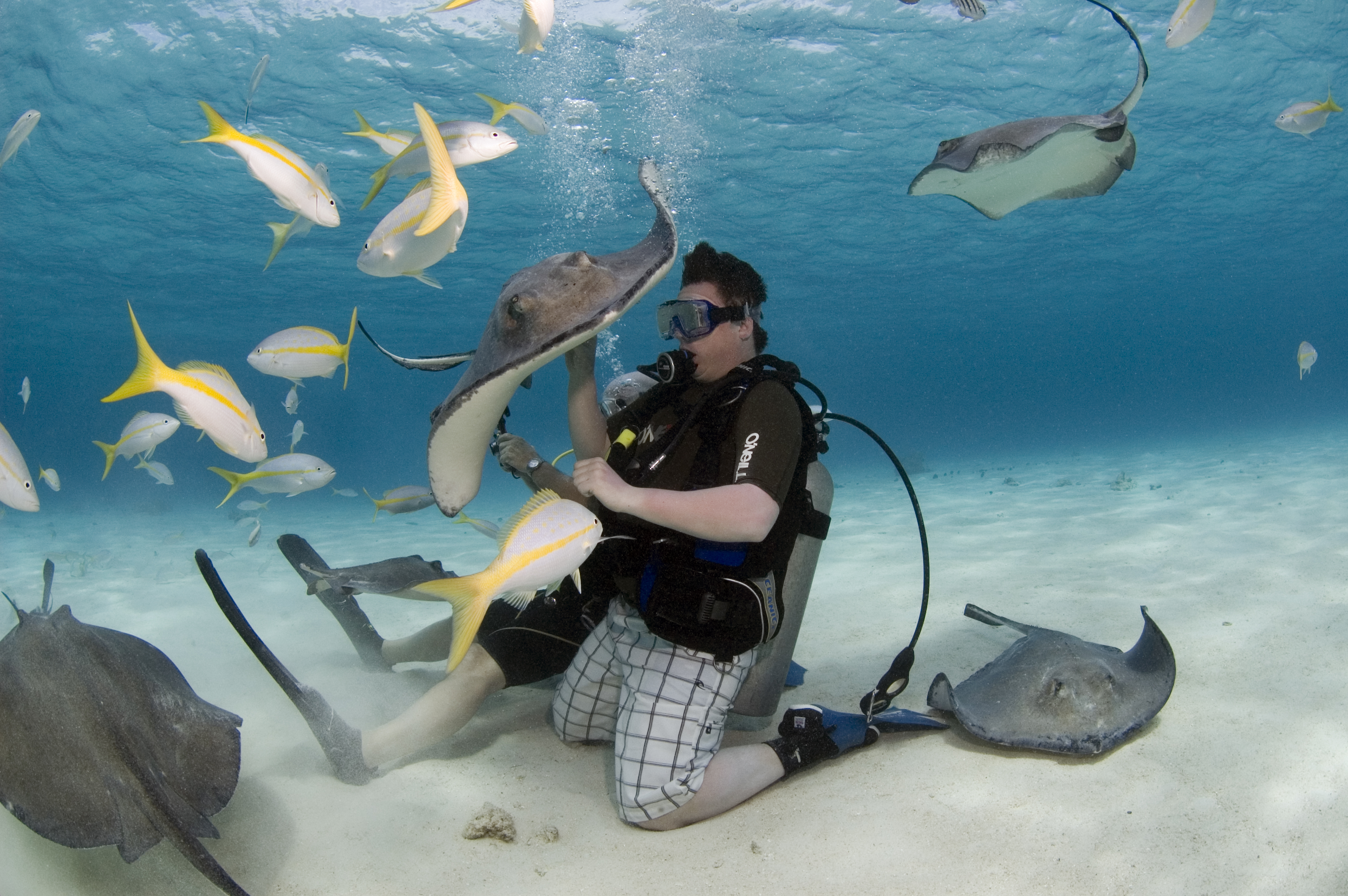 Divers and snorkelers are able to interact with wild stingrays at the Stingray City Sandbar - Grand Cayman